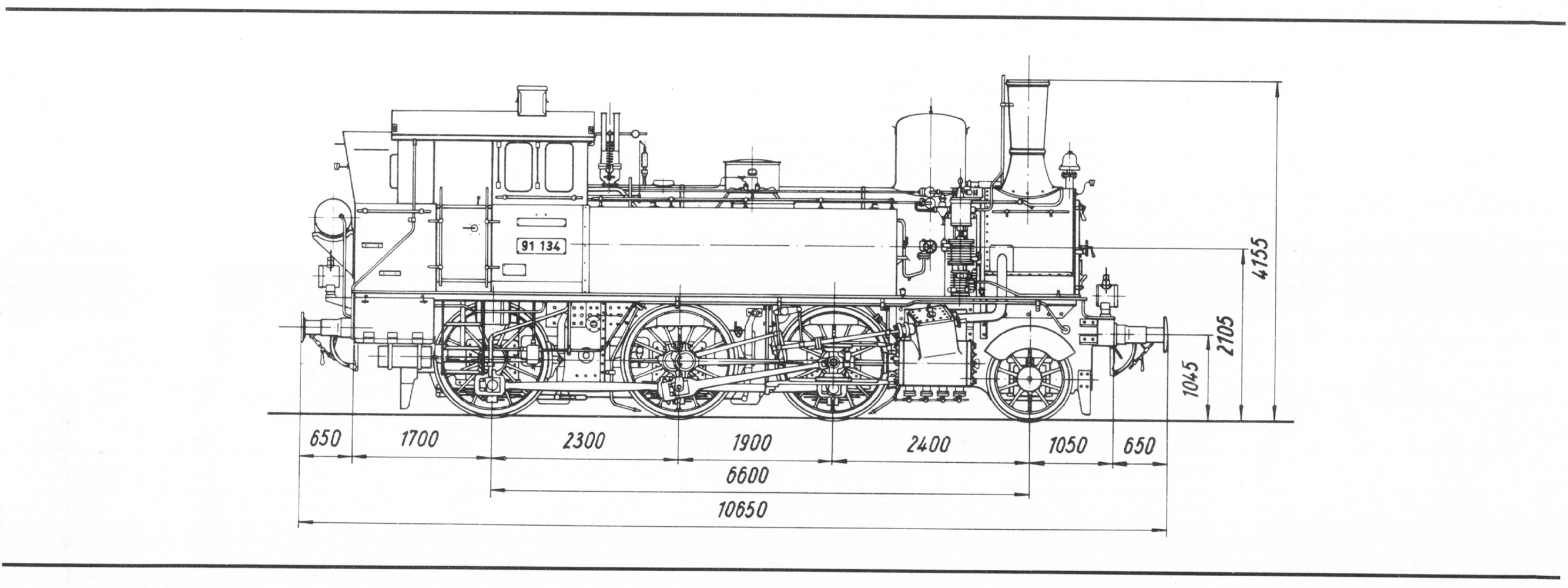 Sectional drawing of the steam locomotive number 91 134 of the Deutsche Reichsbahn